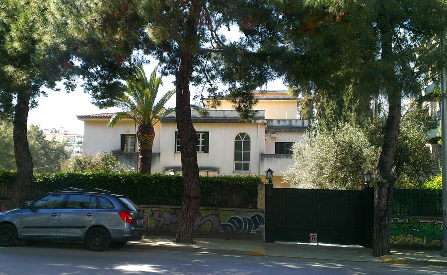 spitia